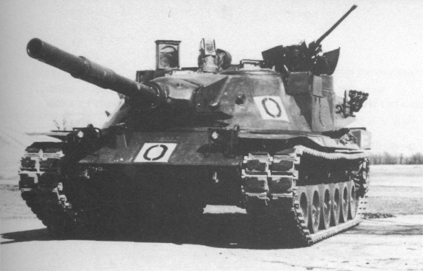 American MBT-70 prototype, front view.